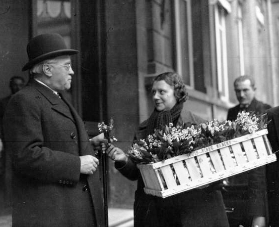 French Prime Minister Albert Sarraut (1872-1962) buying a sprig of Lily of the valley on May Day.